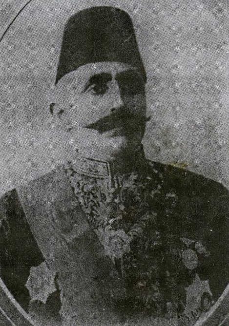 Iljaz Pasha Dibra, Albanian revolutionary from 19 century